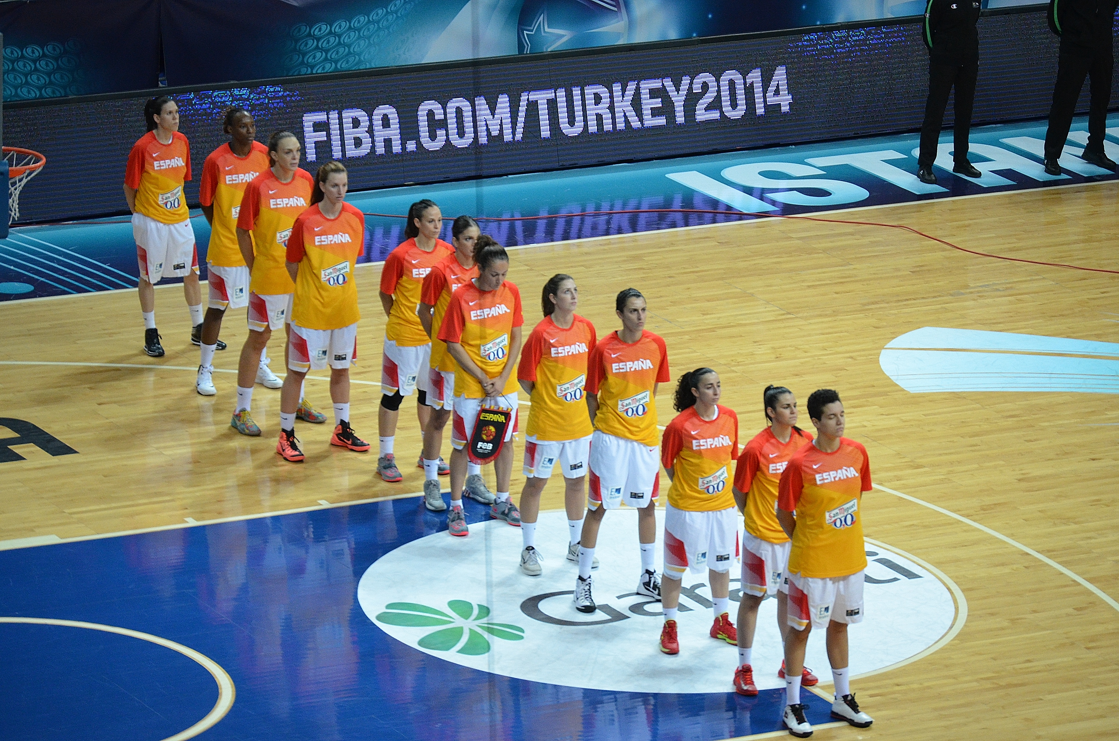 Spain women's national basketball team at the 2014 FIBA World Championship for Women